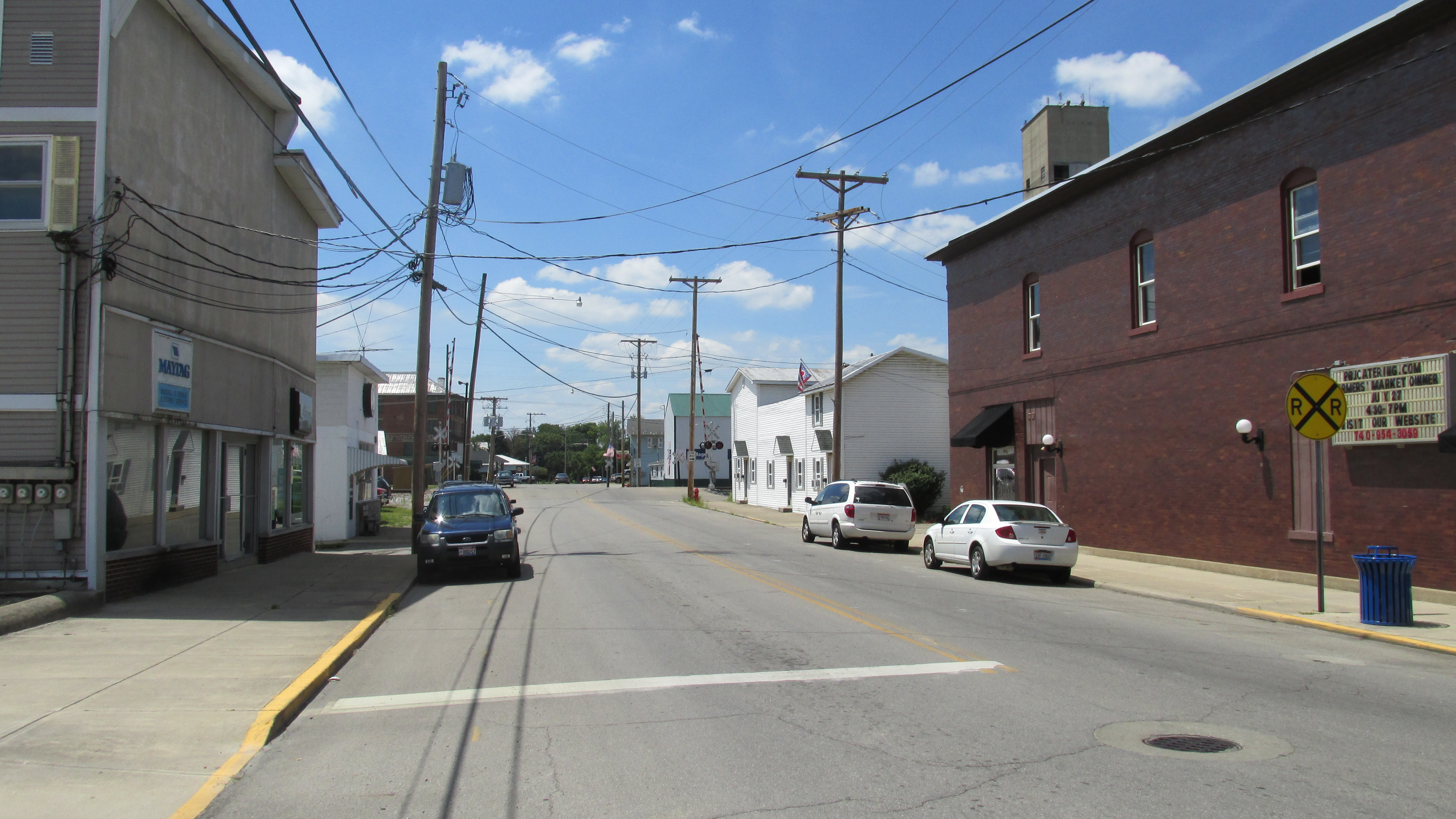 Looking west on Main Street.